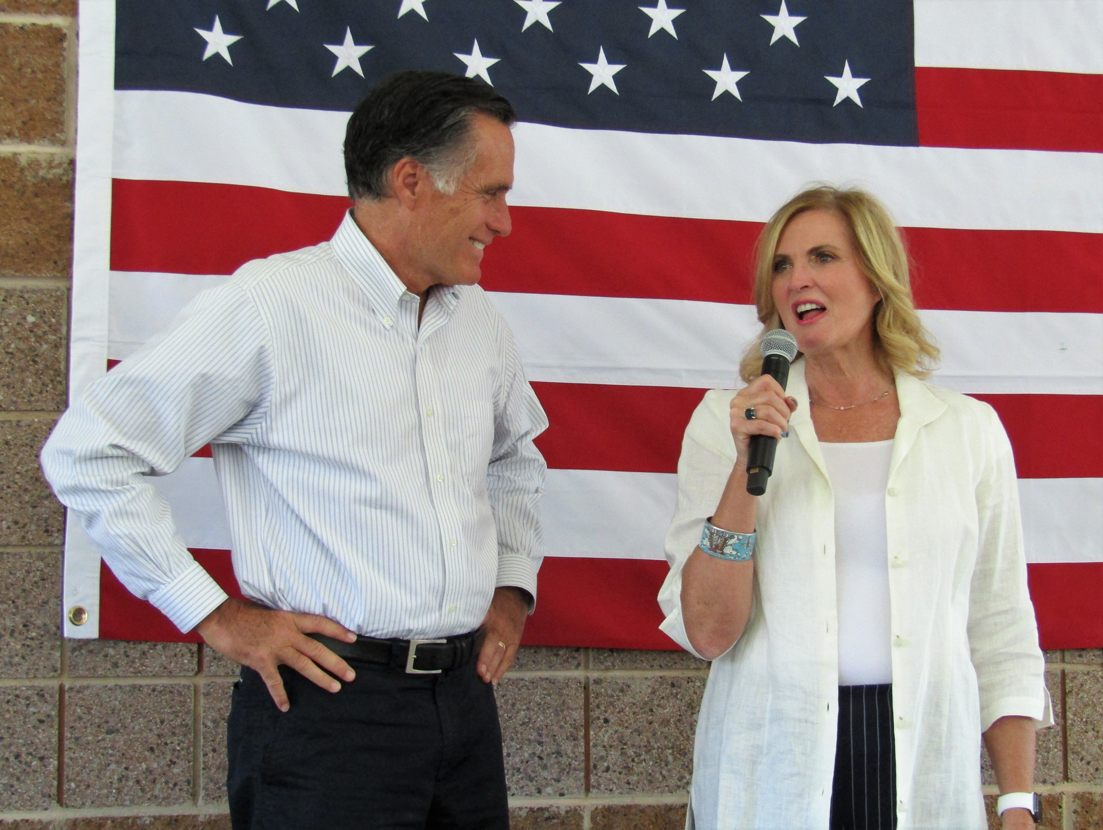 Mitt and Ann Romney at a rally in Palisade Park in Orem, Utah.